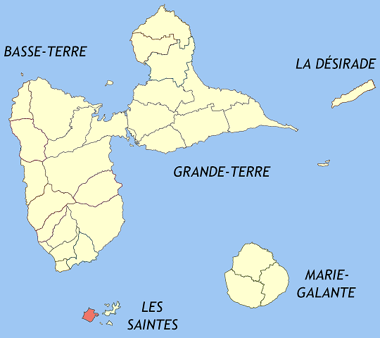 Location of Terre-de-Bas within Guadeloupe